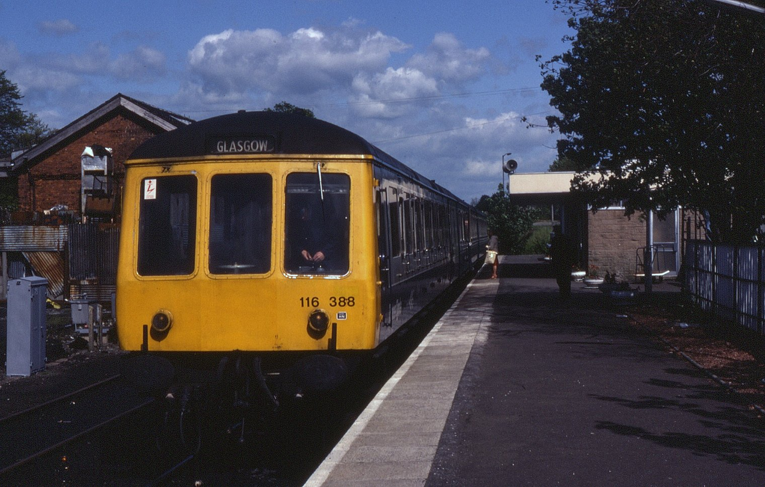 First and only visit to East Kilbride back on 15 June 1983 during a 2-week trip around Scotland. Bearing a set number carried by many Scottish Region DMU sets, seen here is 116.388 based at the long closed Hamilton depot. For the record the 3-car set comprised of 50823, 59354 and 50876. Train was 15:42 East Kilbride to Glasgow Central taken on 15 June 1983.